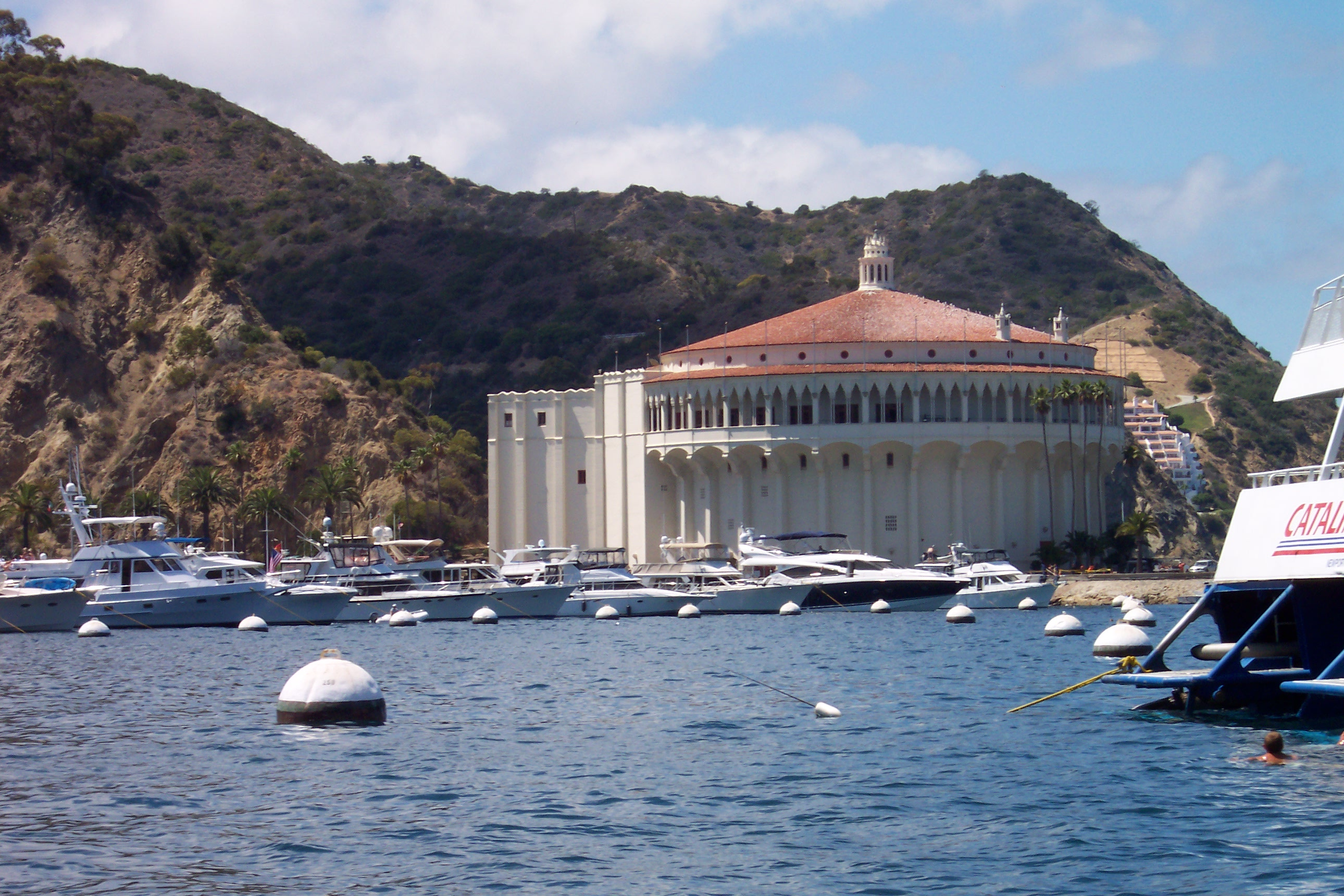 Avalon Harbor, Catalina Island